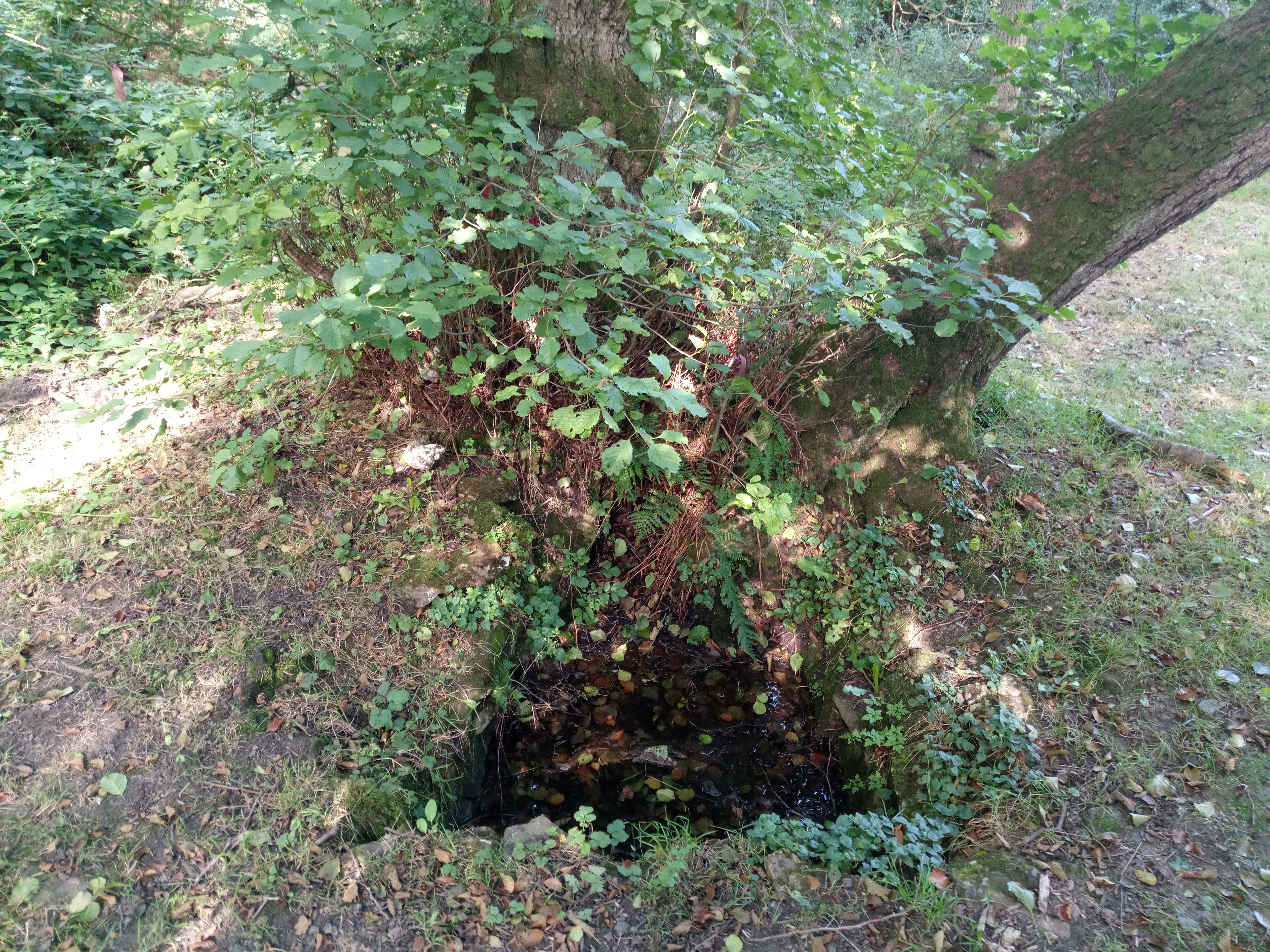 St. Tecla's Well, Llandegla, Wales, United Kingdom